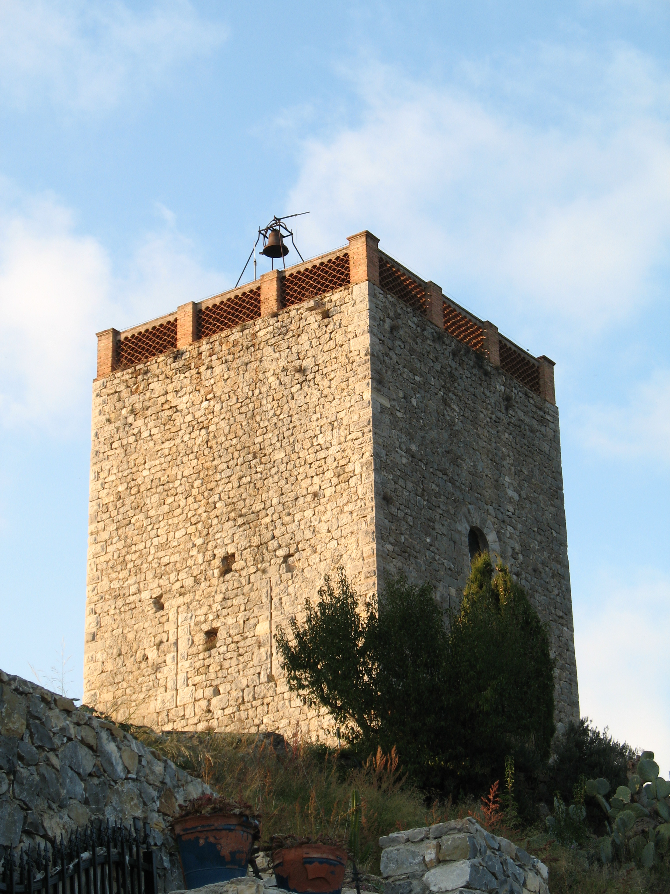 Village Tower of Le Revest Les Eaux (Le Revest-les-Eaux, Var, France)